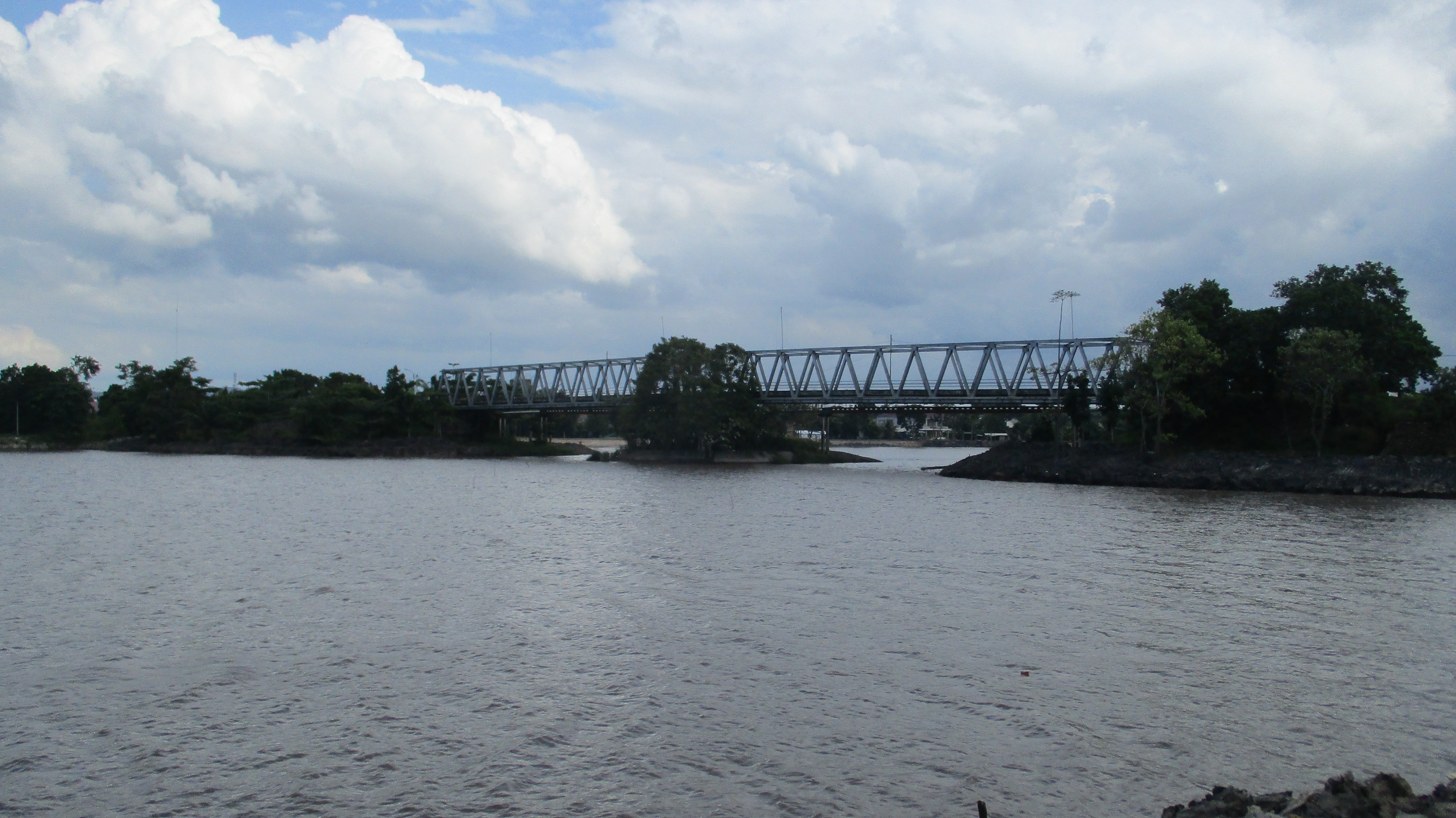 Jembatan 12 Pangkalpinang